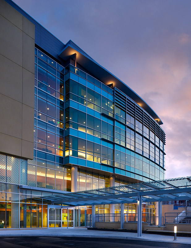 Kennedy Krieger Outpatient Center - 801 N. Broadway